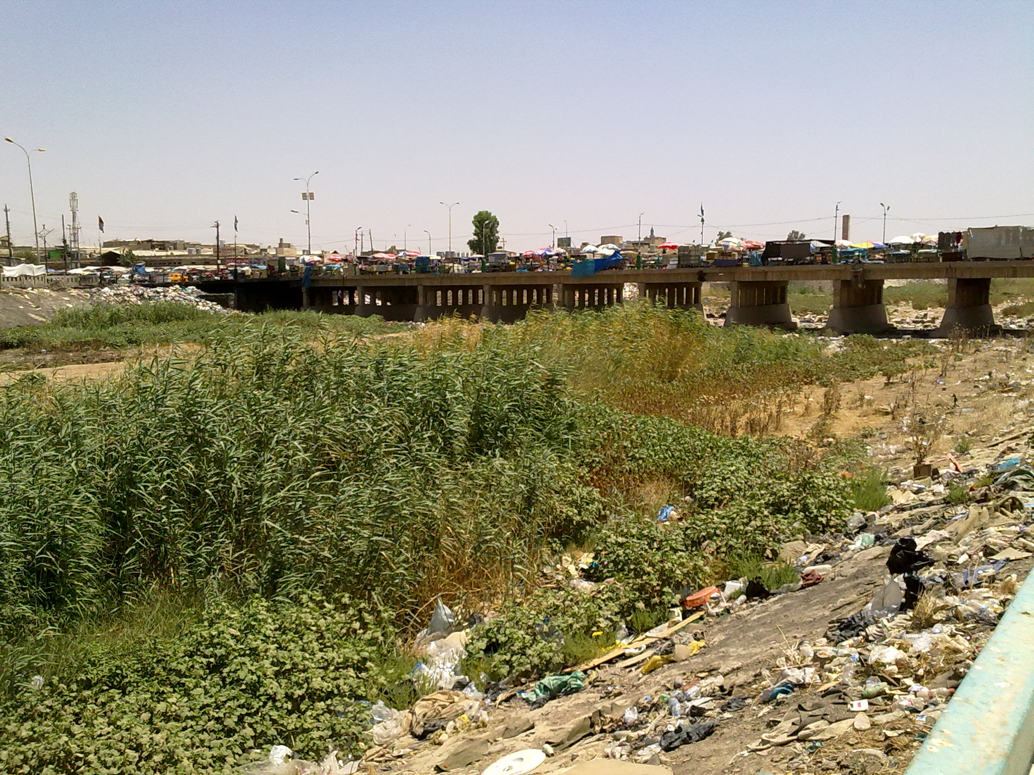 Xase river, a winterbourne tributary of Tigris that runs through Kirkuk city.